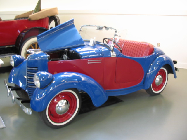 Image of an American Bantam on museum display taken by me in July of 2004.